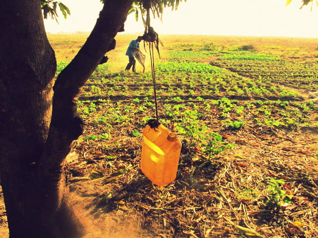 Manuring vegetable garden in Zambezi flood plains This is an image of music and dance from Zambia